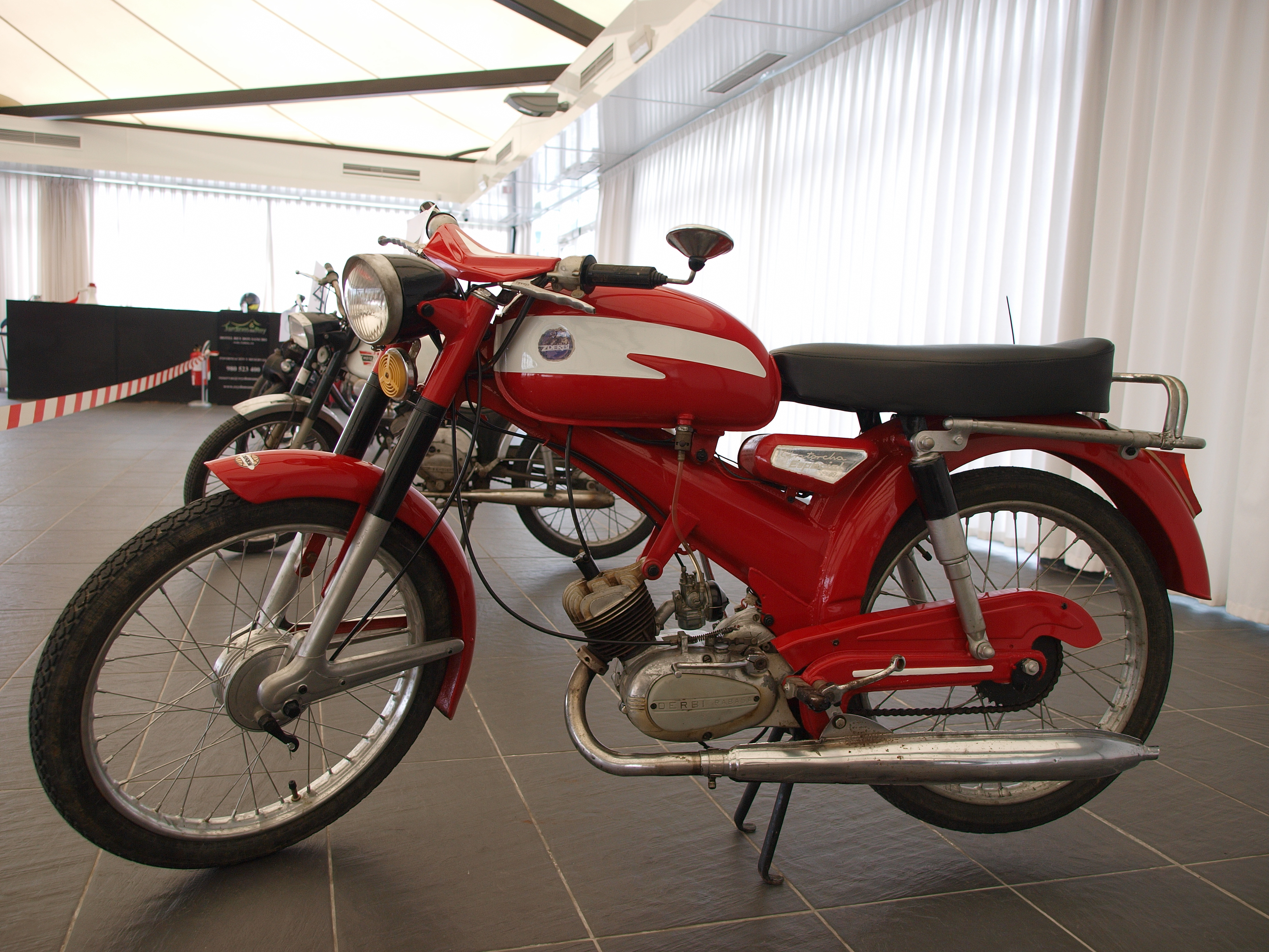 Derbi Antorcha moped, 49cc